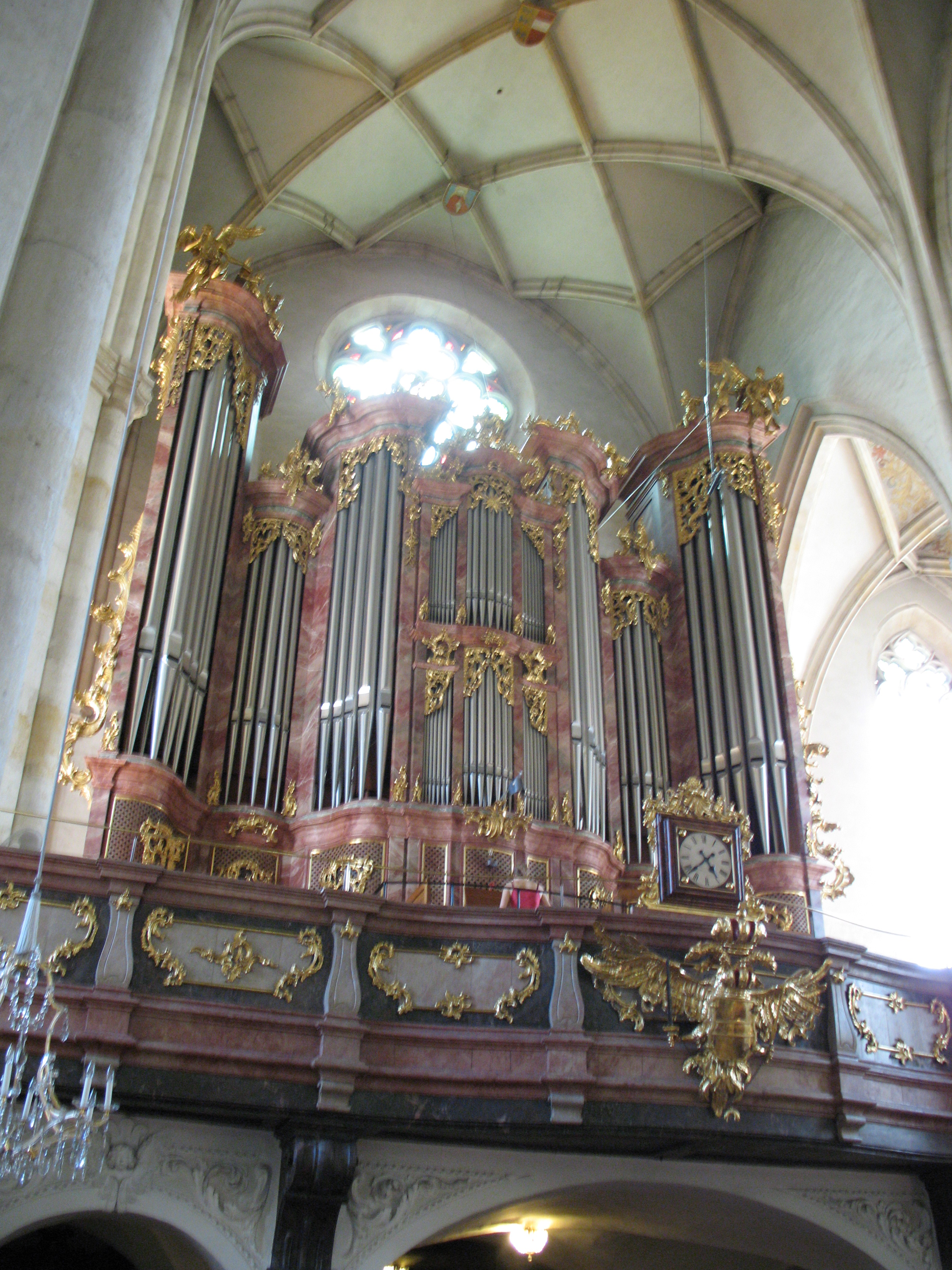 Cathedral, Graz, Austria